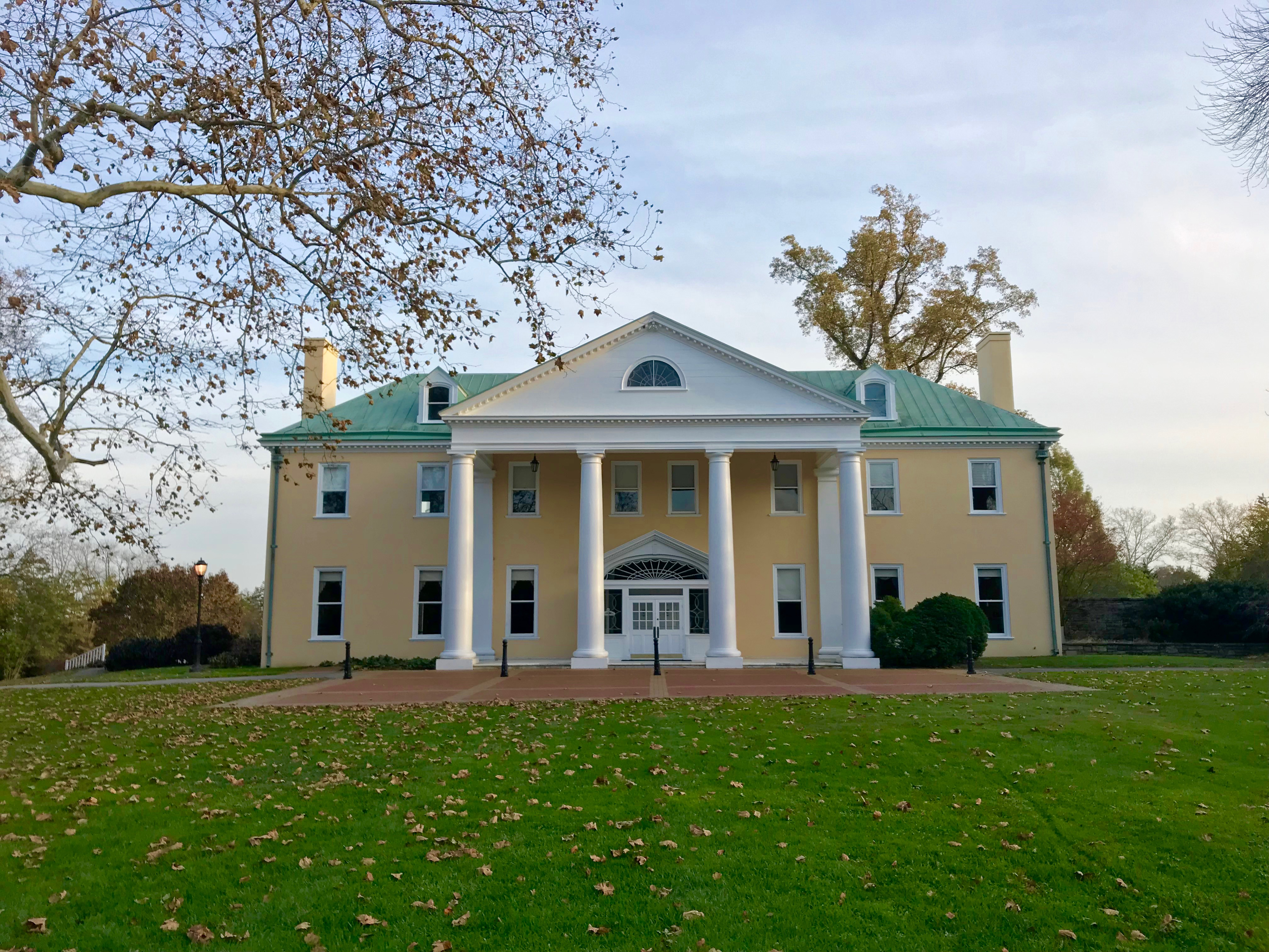 Bellevue Hall is a former DuPont family estate in Wilmington, Delaware. Bellevue Hall is located within Bellevue State Park.